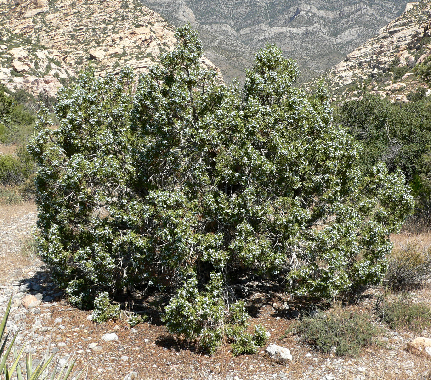 Juniperus osteosperma in Red Rock Canyon, southern Nevada